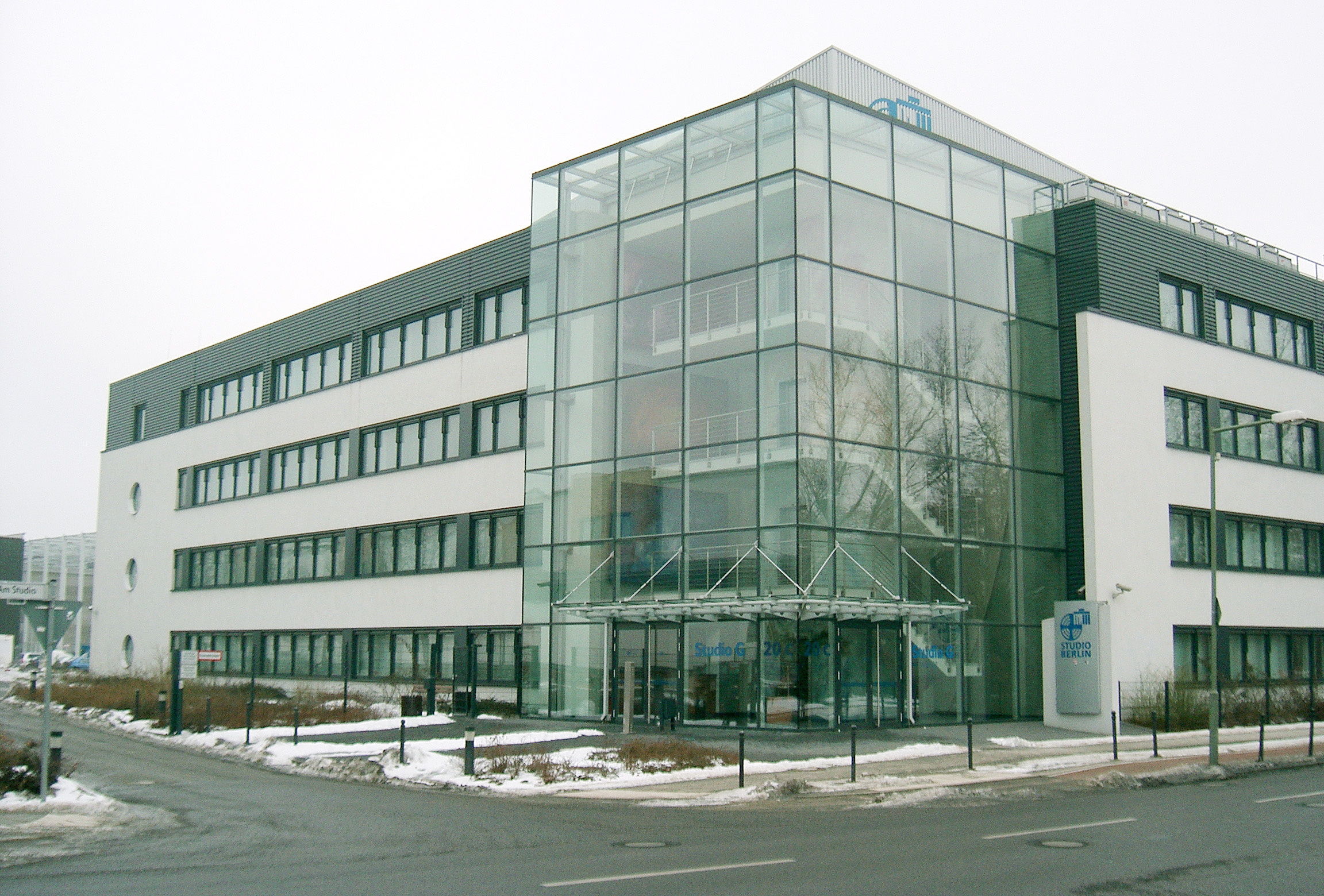 Studio G of Studio Berlin